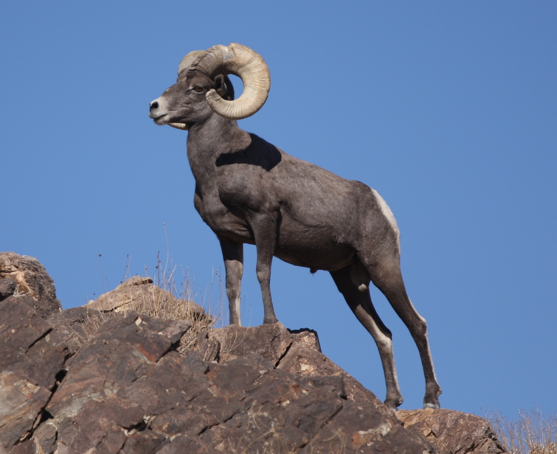 Desert Bighorn Sheep(Ovis canadensis nelsoni) in Joshua Tree National Park.